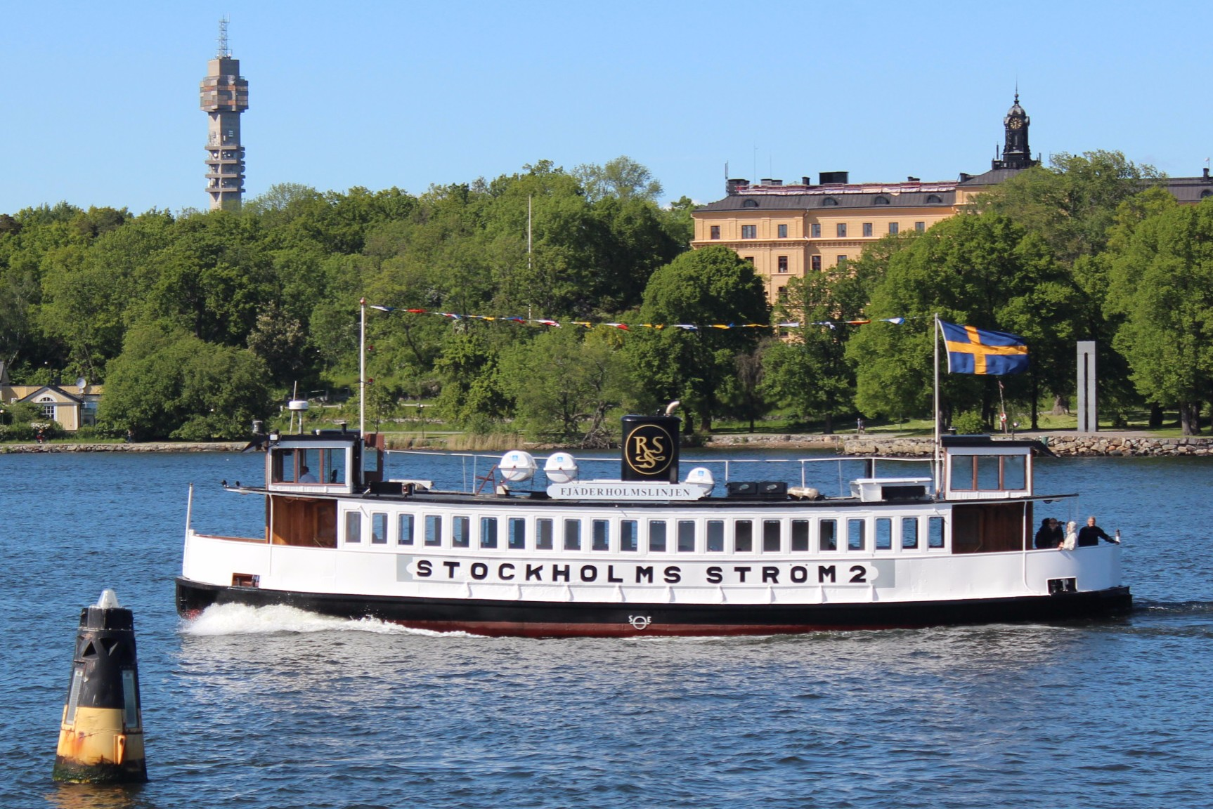 Stockholms Ström 2 passerar Manillaskolan, Djurgården